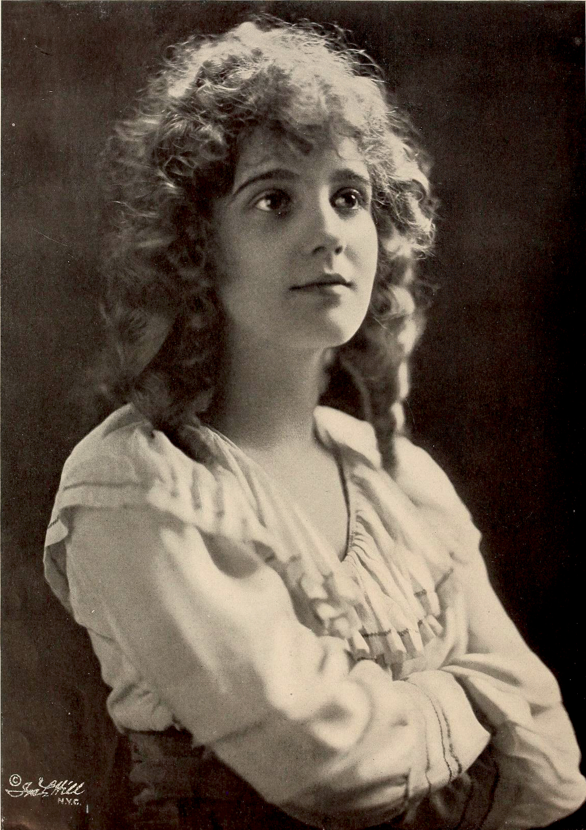 Louise Huff. The Photo-Play Journal, October 1916